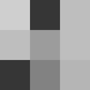 Edited version of Image:Color_icon_blue.svg.